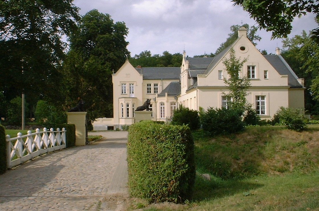 Dalwitz manor in Walkendorf in Mecklenburg-Western Pomerania, Germany